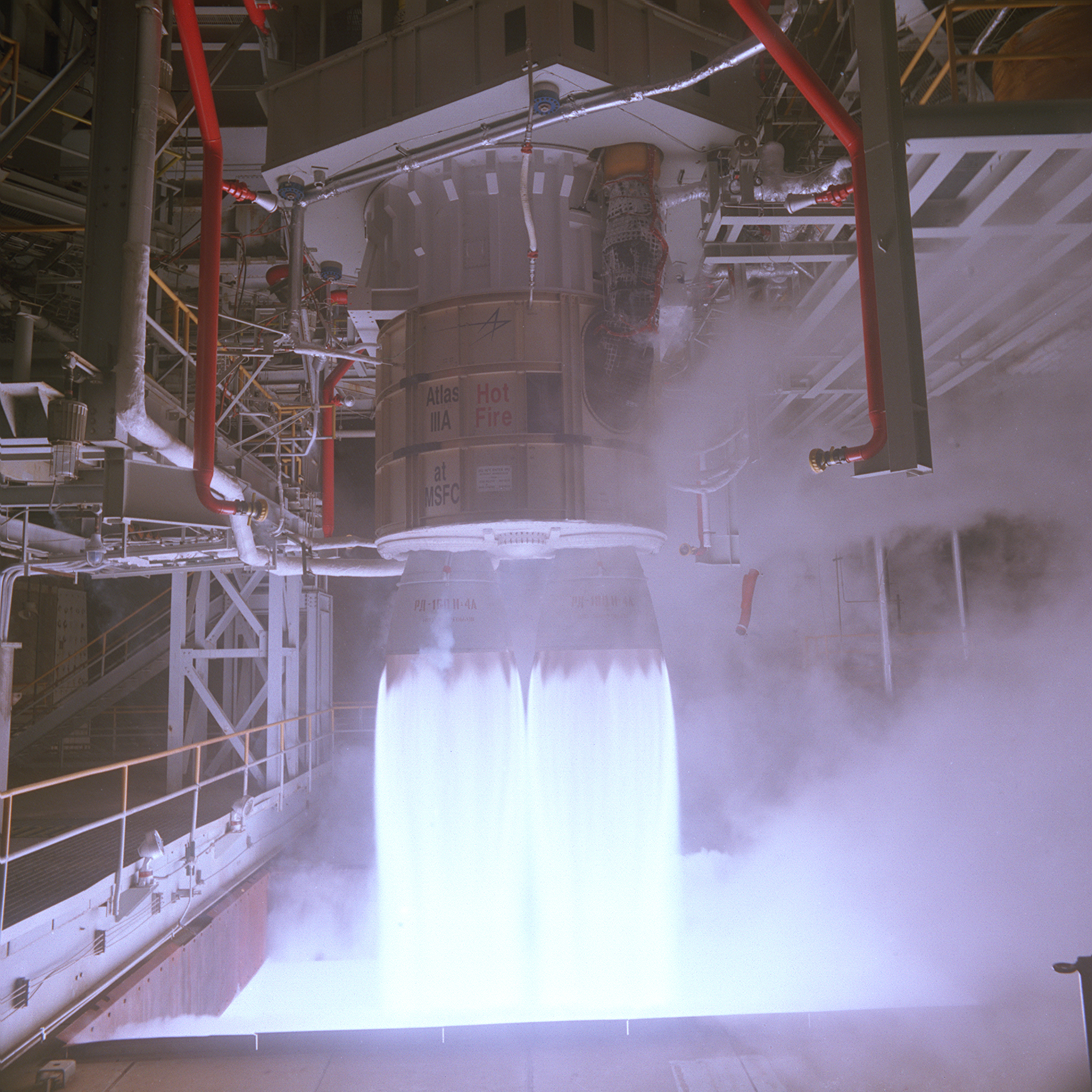 NASA engineers successfully tested a Russian-built rocket engine on November 4, 1998 at the Marshall Space Flight Center (MSFC) Advanced Engine Test Facility, which had been used for testing the Saturn V F-1 engines and Space Shuttle Main engines. The MSFC was under a Space Act Agreement with Lockheed Martin Astronautics of Denver to provide a series of test firings of the Atlas III propulsion system configured with the Russian-designed RD-180 engine. The tests were designed to measure the performance of the Atlas III propulsion system, which included avionics and propellant tanks and lines, and how these components interacted with the RD-180 engine. The RD-180 is powered by kerosene and liquid oxygen, the same fuel mix used in Saturn rockets. The RD-180, the most powerful rocket engine tested at the MSFC since Saturn rocket tests in the 1960s, generated 860,000 pounds of thrust.